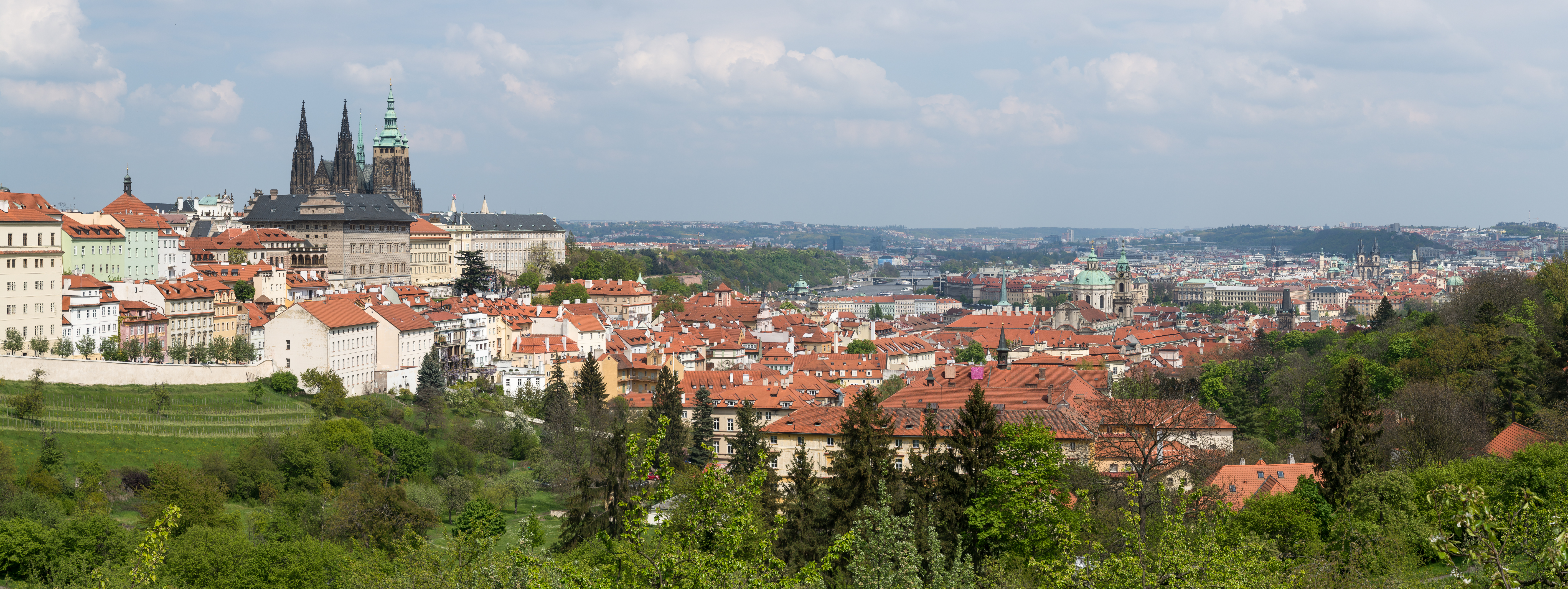 View from Petřín to Hradčany and the Old Town of Prague, Czech Republic